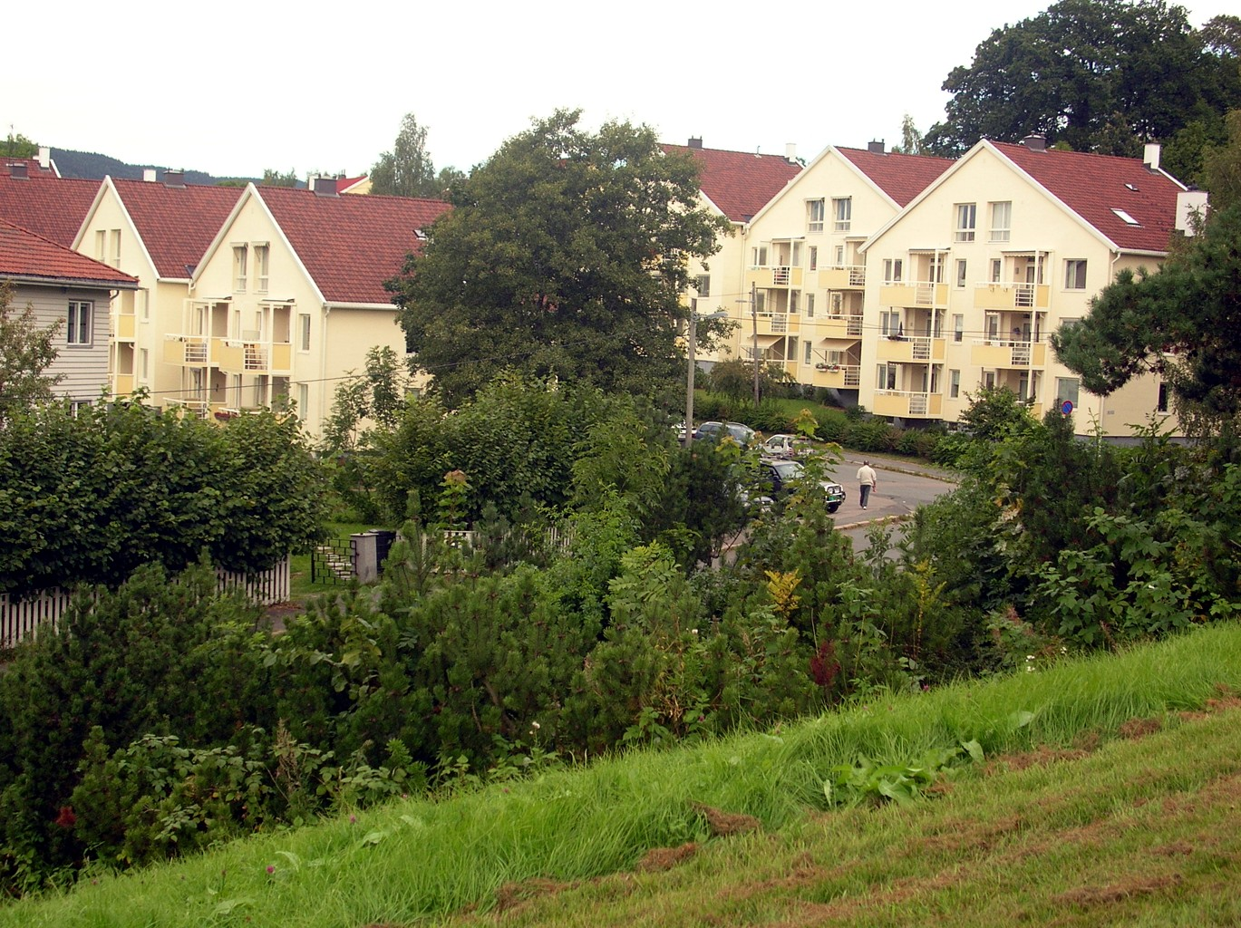 Tåsen – the quarter of Oslo (Norway)